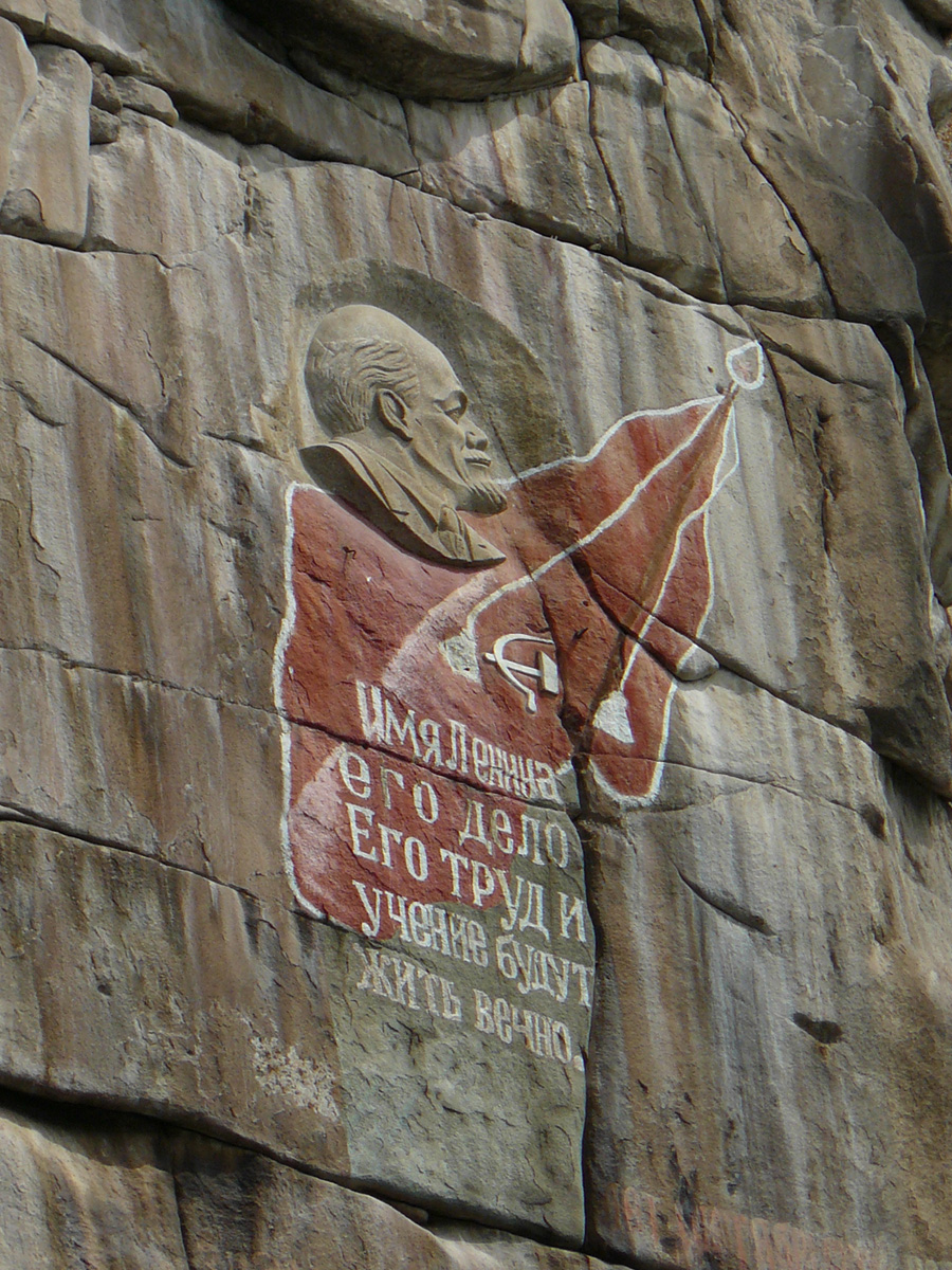 Lenin's profile carved by I.Sychov at the granite cliff above the Biya river near Udalovka village. Барельеф Ленина, высеченный И.Сычёвым на гранитной скале на берегу Бии недалеко от села Удаловка Турочакского района.